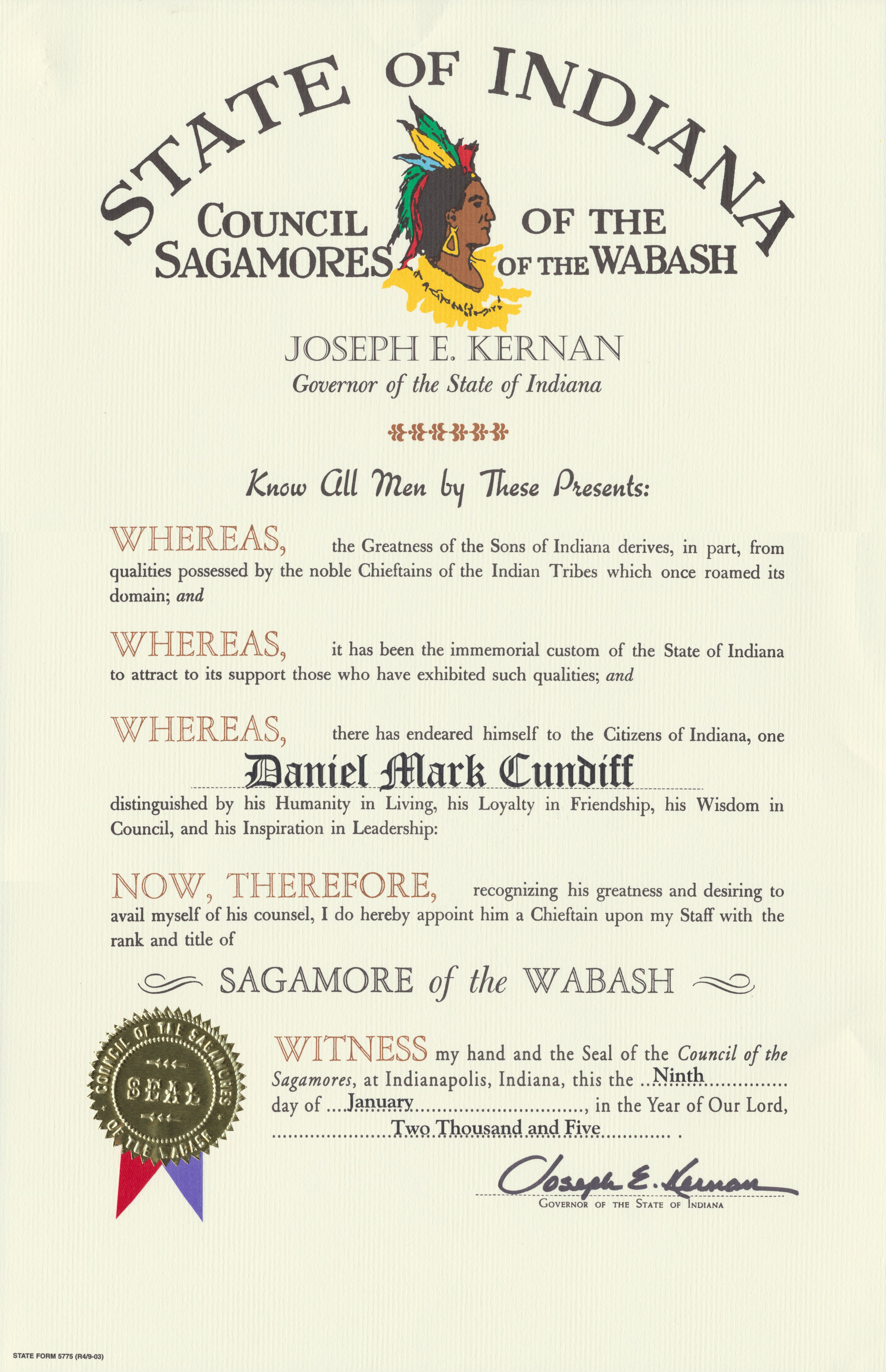 Sagamore of the Wabash award bestowed by Governor Joseph E. Kernan to Daniel Mark Cundiff on January 9th, 2005. The paper is off-white, softly textured, and lightly corregated. It appears to be printed or silk-screened (except for the ribbon which is an embossed reflective gold material. There is nothing on the back side of the certificate. The signature is an actual signature from the Governor. According this version of the certificate, at the bottom it says "STATE FORM 5775 (R4/9-03)".